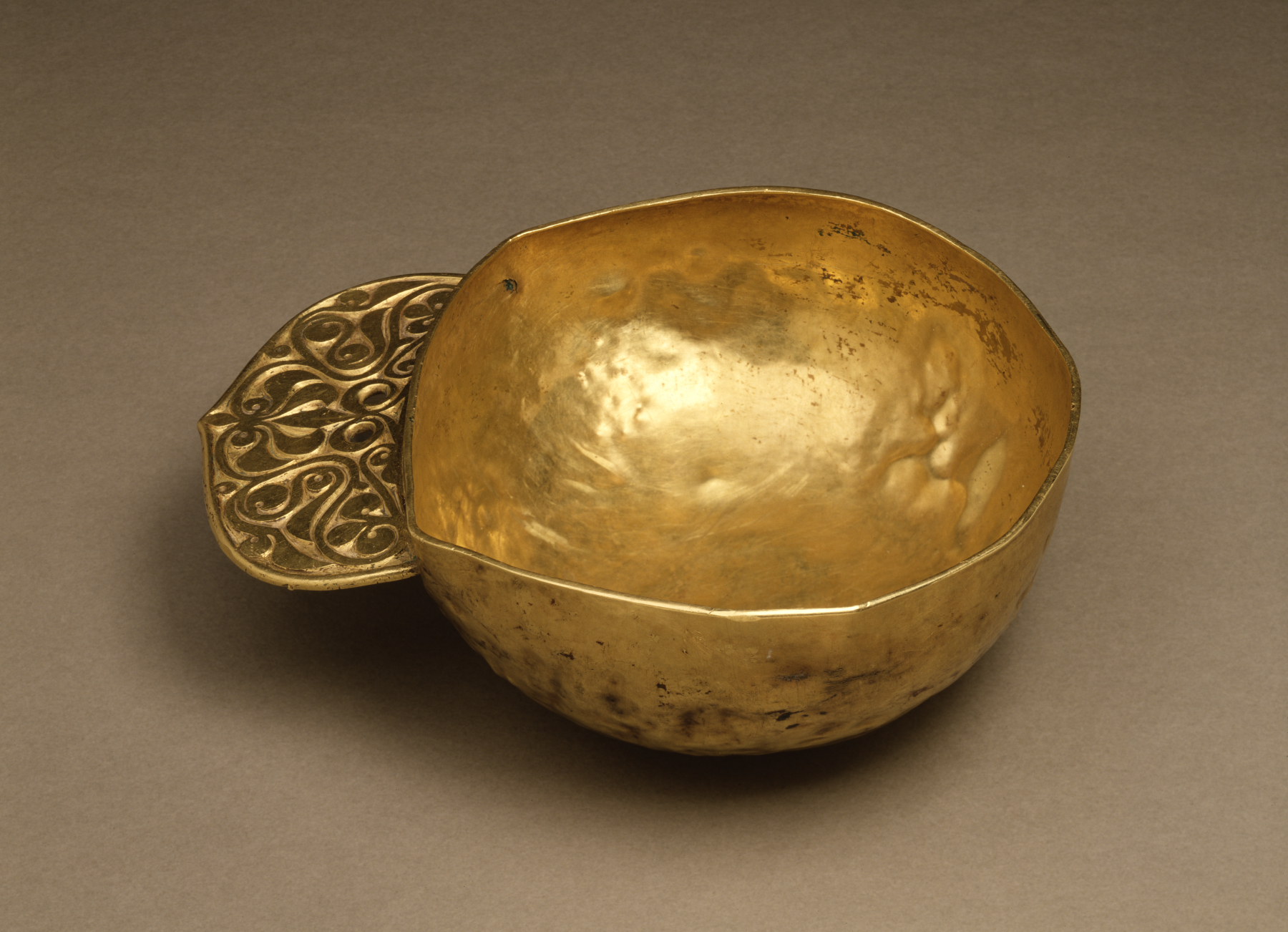 This bowl is one of the finest pieces from a large treasure found in 1902 in a field at Vrap, Albania. The handle is decorated on the upper side in a casting technique known as "chip-carving," in which the outlines are cut into the mold on a slant. (By contrast, the designs of the handle's underside are engraved.) The sinuous patterns echo designs in Persian and Byzantine art. The shape of the handle also shows eastern influence. Two holes in the handle allow the bowl to be hung, possibly from the trappings of a horse. The Avars, a confederation of nomadic tribes of Central Asian origin, rose to power in eastern Europe in the 6th century. Most of the Avar finds come from the area of their strongholds in Pannonia (present-day Hungary). This treasure appears to have been deposited in the middle Danube region in the grave of an Avaric Khagan (king) who reigned in the second half of the 7th century. Later, the grave was robbed and the treasure brought to the area of modern Albania. The hoard consists of 46 objects, including gold buckles, strap-ends for belts, and belt ornaments, all but two of which (this bowl and a goblet in the Archeological Museum, Istanbul) are in The Metropolitan Museum of Art, New York (inv. 17.190.1673-1712).